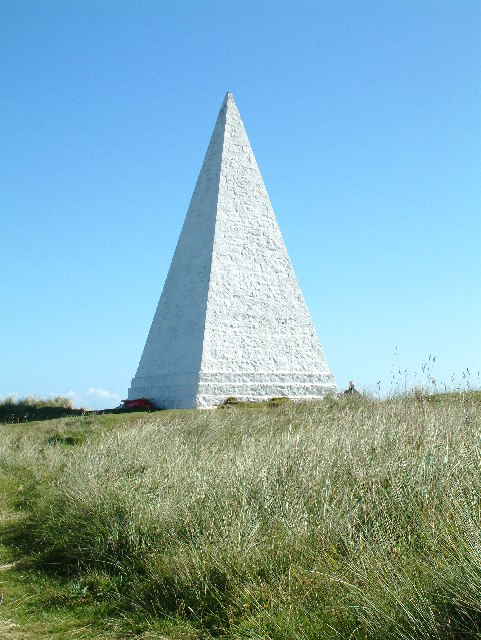 Emmanuel Head Beacon - Holy Island. A 15m high shipping beacon.